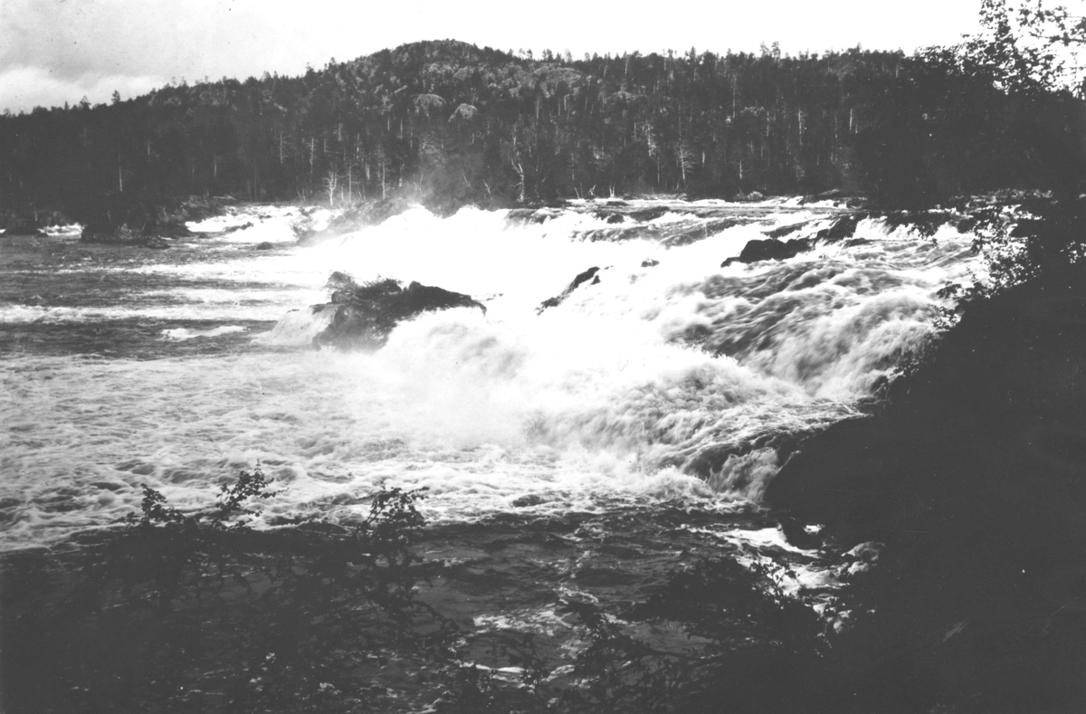 Skogfoss, Pasvik River, Finnmark, Norway Photo:Ellisif Wessel, ca 1900